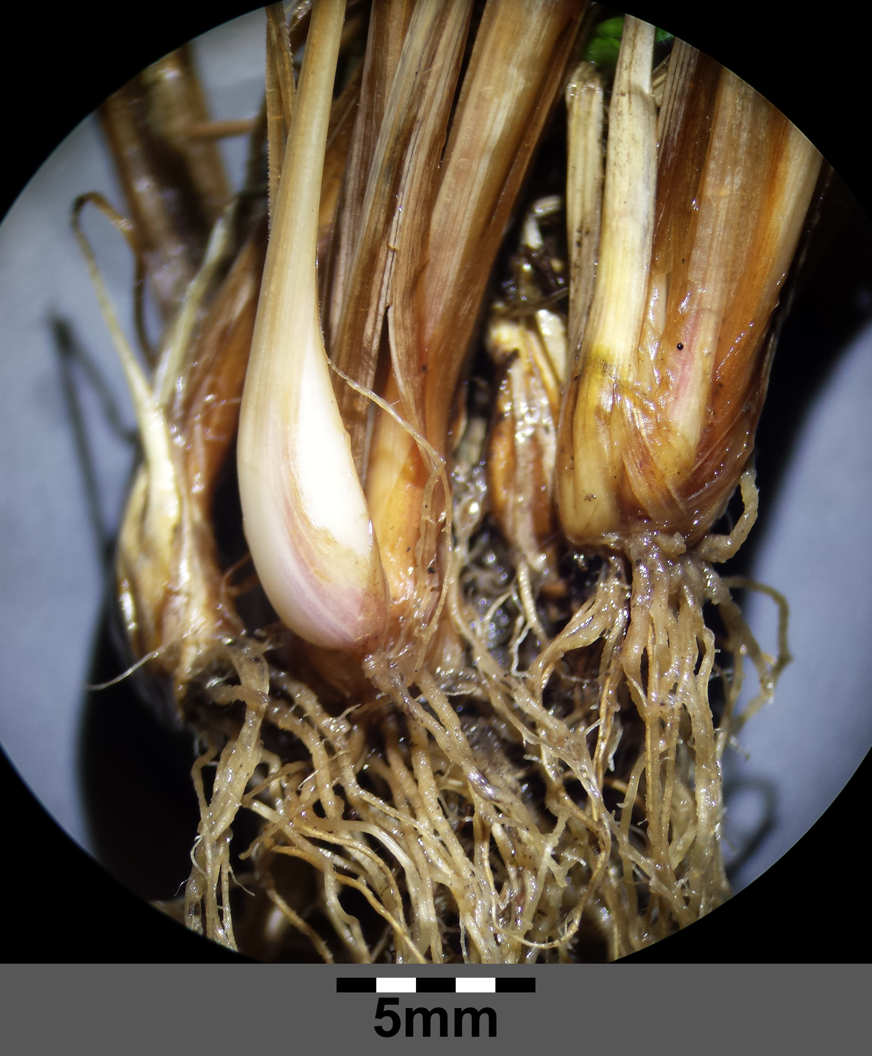 Base of stipes Taxonym: Poa bulbosa ss Fischer et al. EfÖLS 2008 ISBN 978-3-85474-187-9 Location: Wasserpark, Vienna-Floridsdorf - ca. 160 m a.s.l. Habitat: dry, ruderal meadows